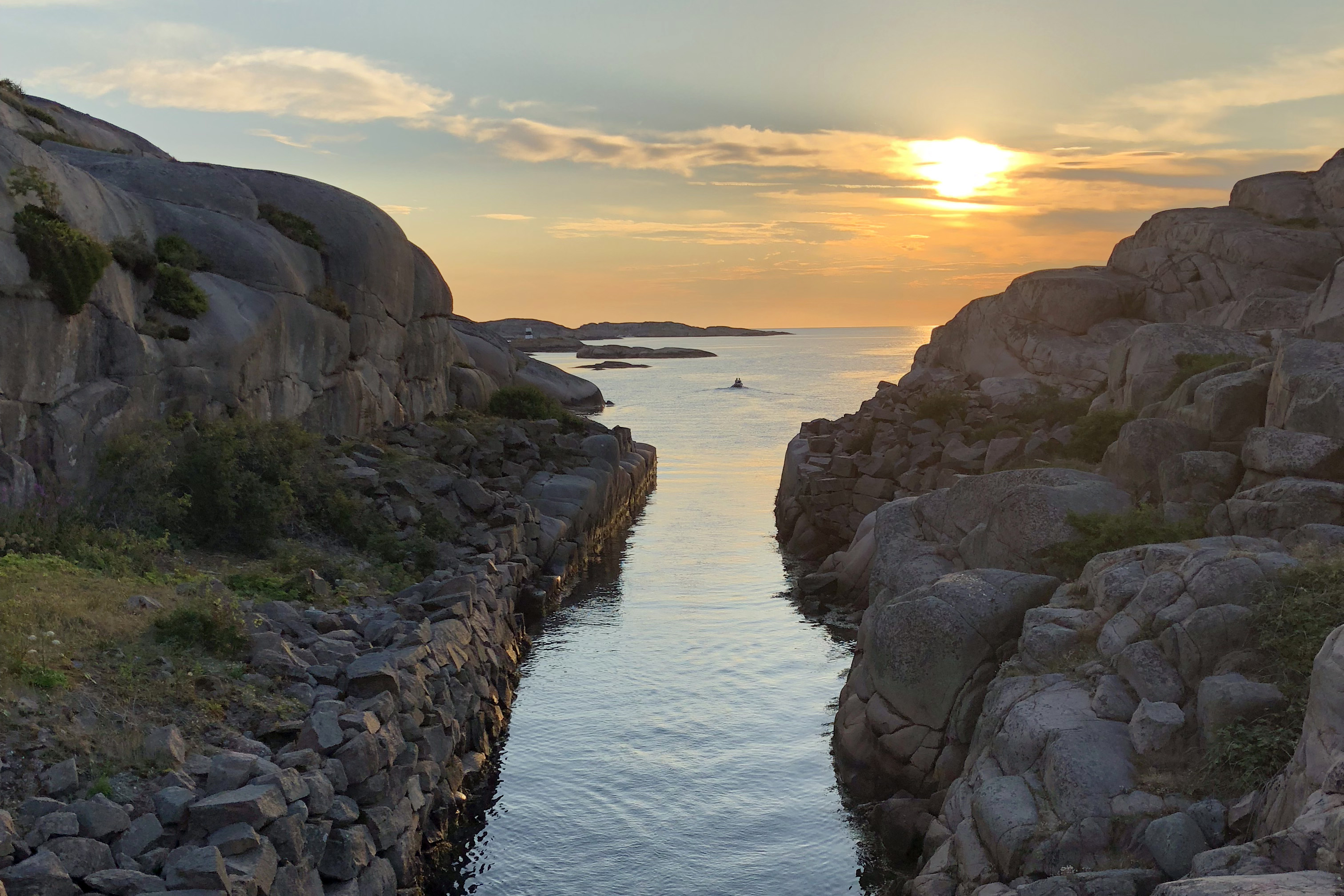 Smyghålet ("The Sneak Hole"), a narrow passage in the north west part of Smögen harbor, Sweden.